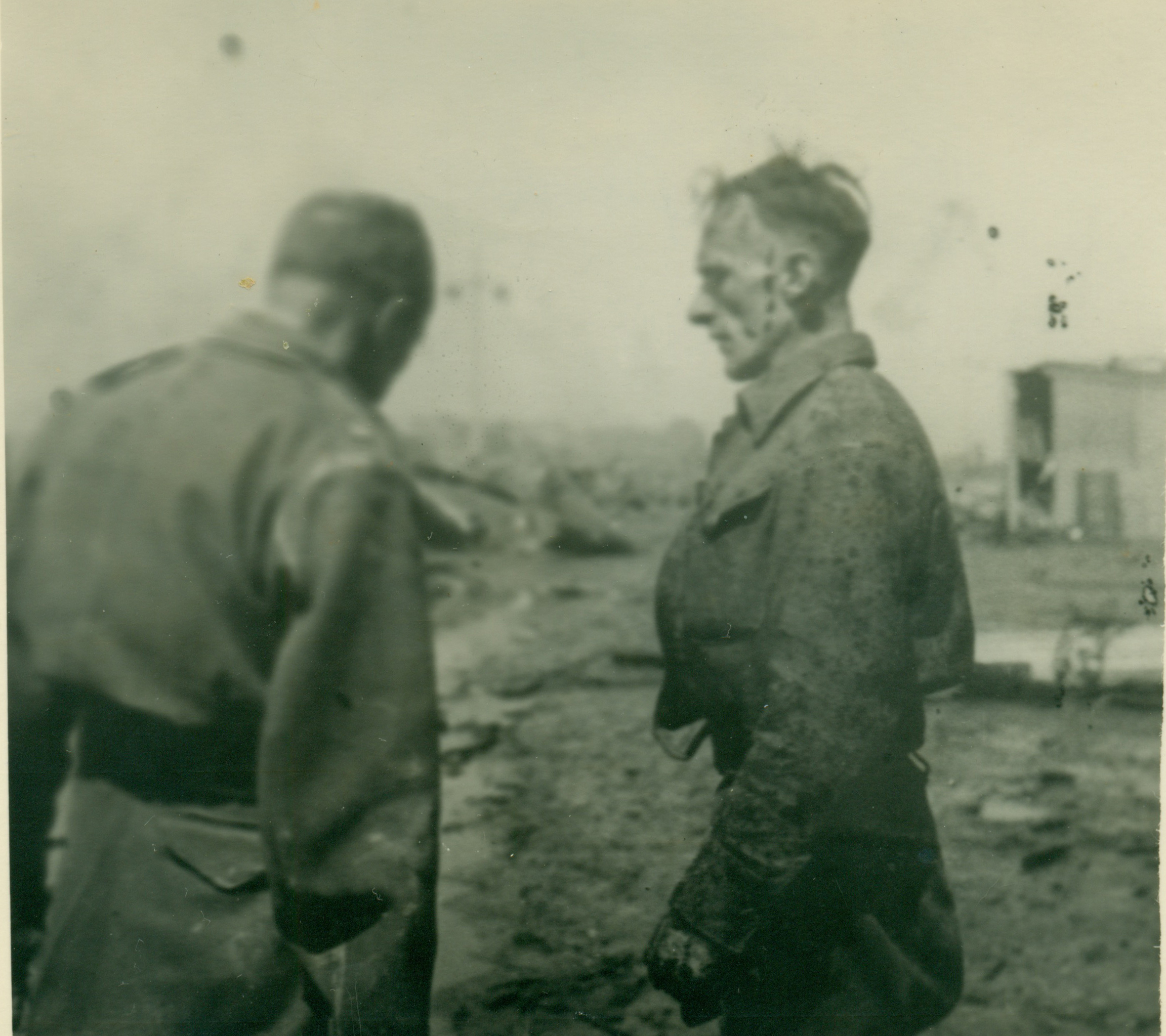 April 9, 1945 - Photo by WOJG Hubert Platt Henderson who was stationed at Bari as the Director of the 773rd Band